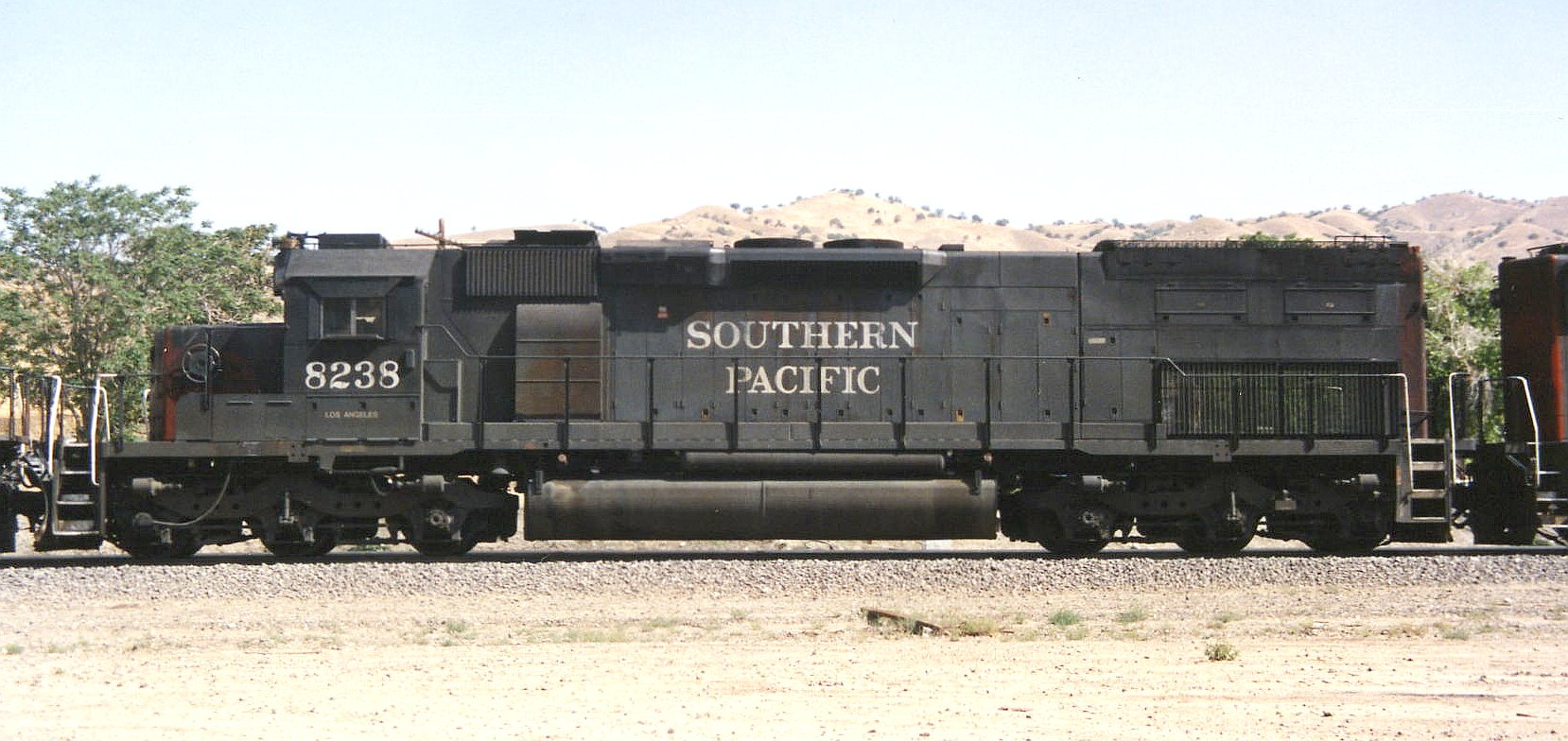 Southern Pacific Railroad 8238, an EMD SD40T-2, in an eastbound train at Caliente, on its way over the Tehachapi Loop, in the late 1980s.